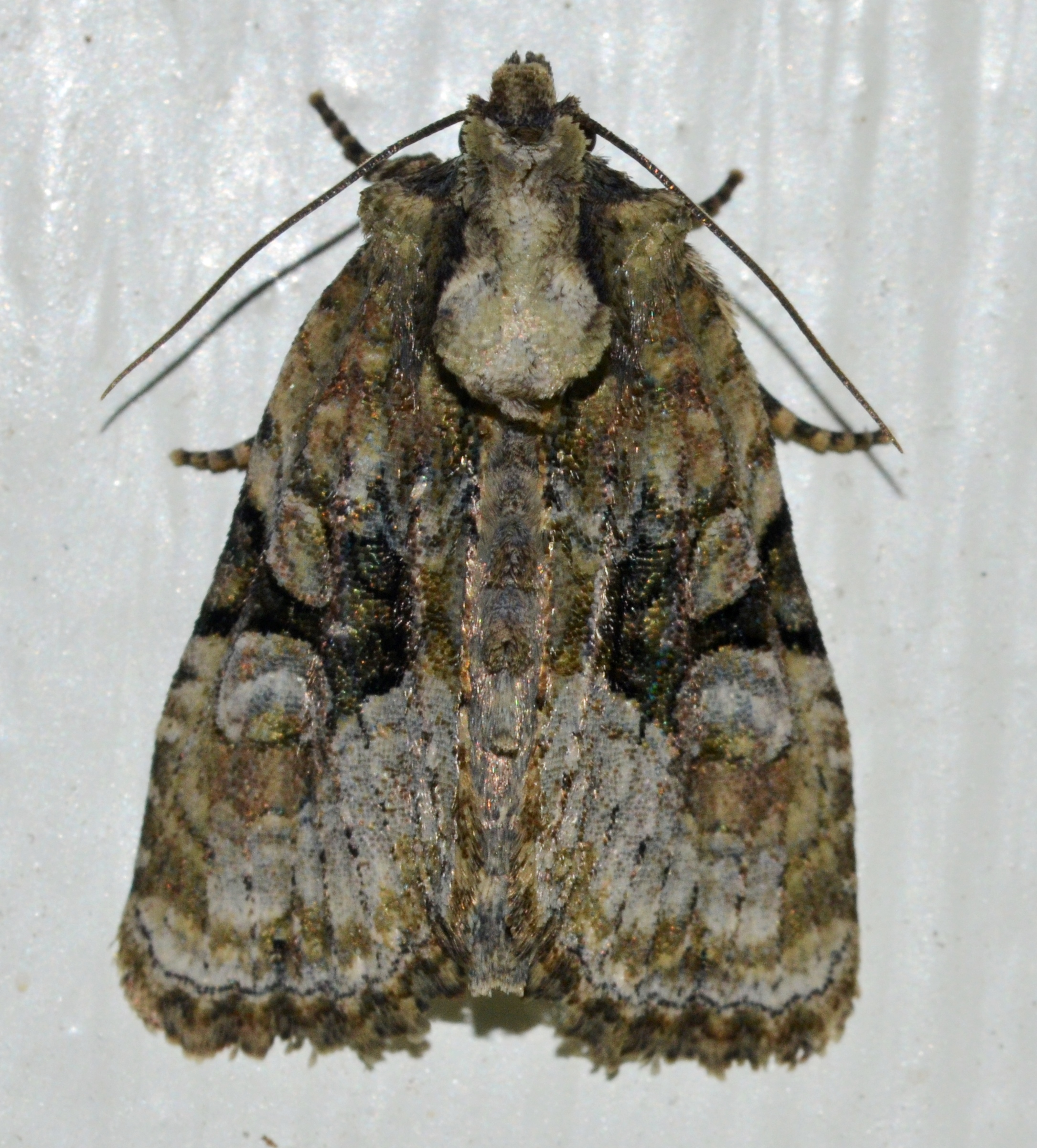 National Moth Week Event at Shaw Nature Reserve July 5, 2014